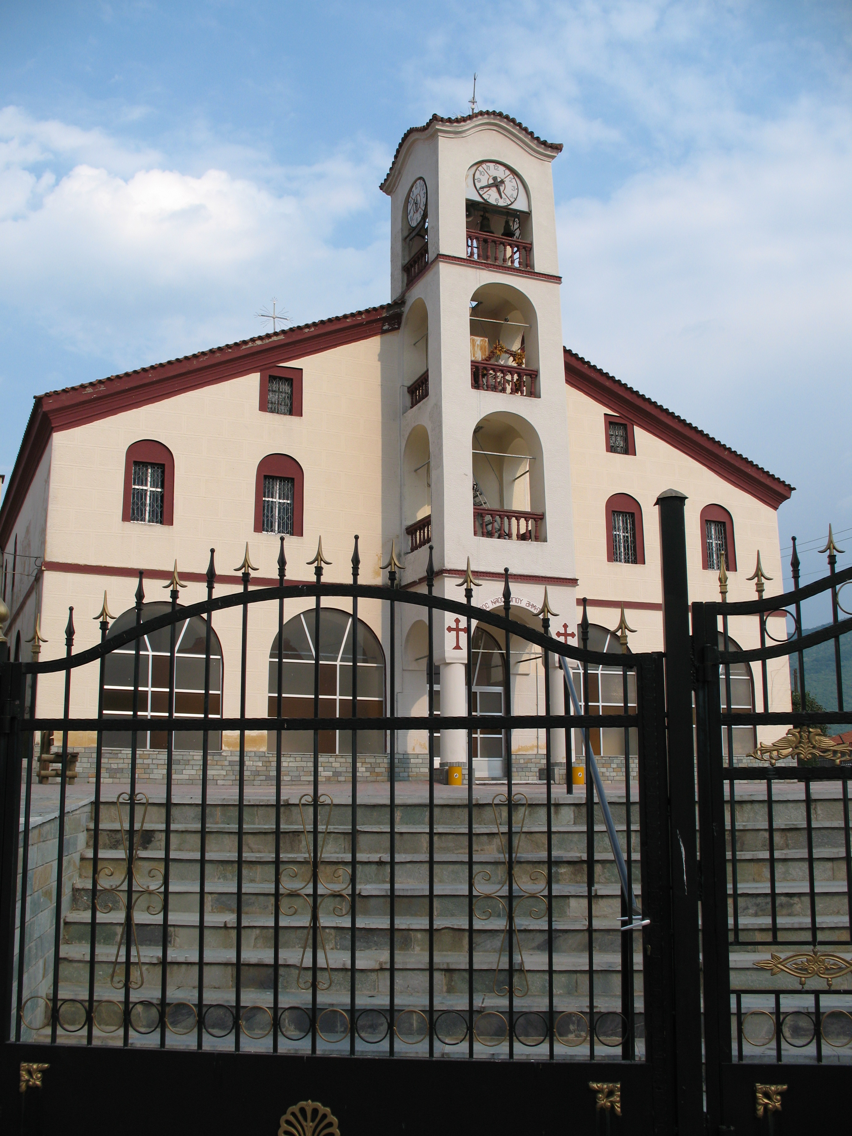 The church in Zarnevo.